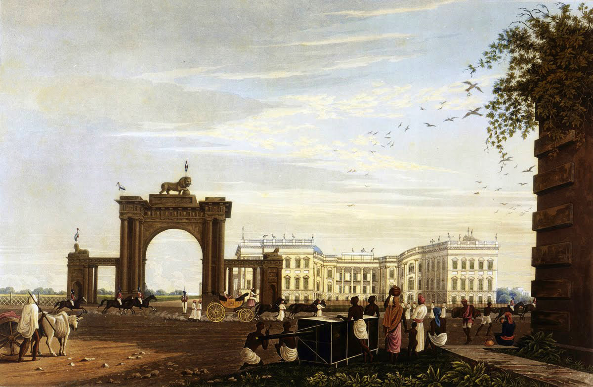 "A View of Government House from the Eastward," 1819. Engraved by R Havell Jr. In Views of Calcutta and its Environs by James Baillie Fraser (publ. 1824). Interestingly shows a large number of Greater Adjutant Storks perched on the buildings.